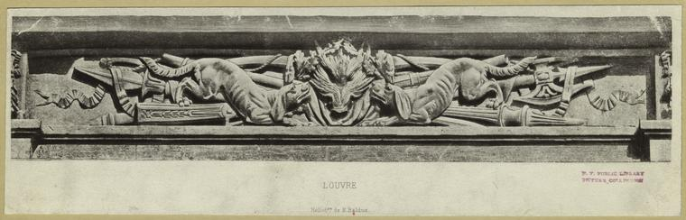 Louvre - Heliogravure - Palais du Louvre et des Tuileries. Motifs de décorations tirées des constructions exécutées au Nouveau Louvre et au Palais des Tuileries